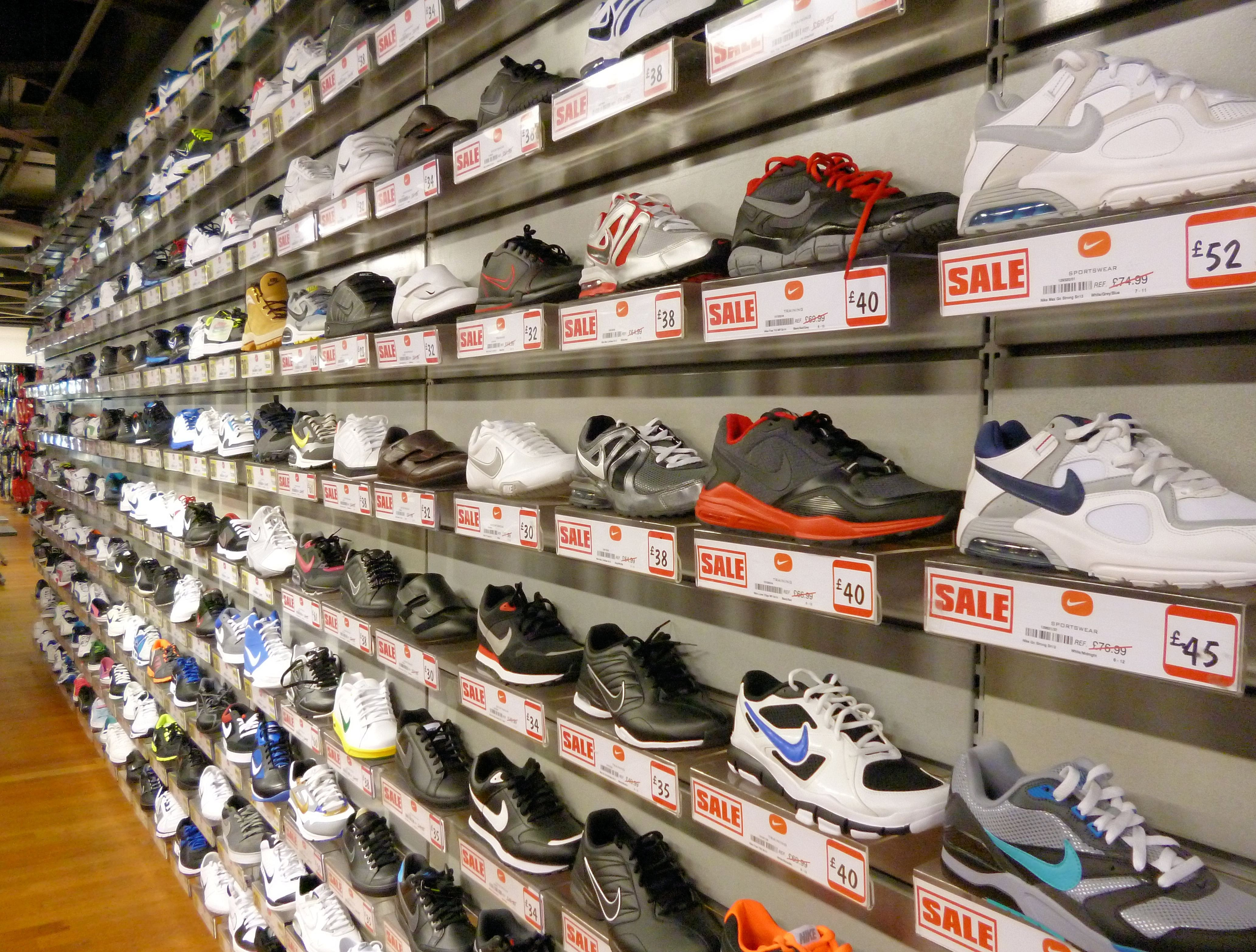 A photo of a 2012 shoe sale display, London, United Kingdom.